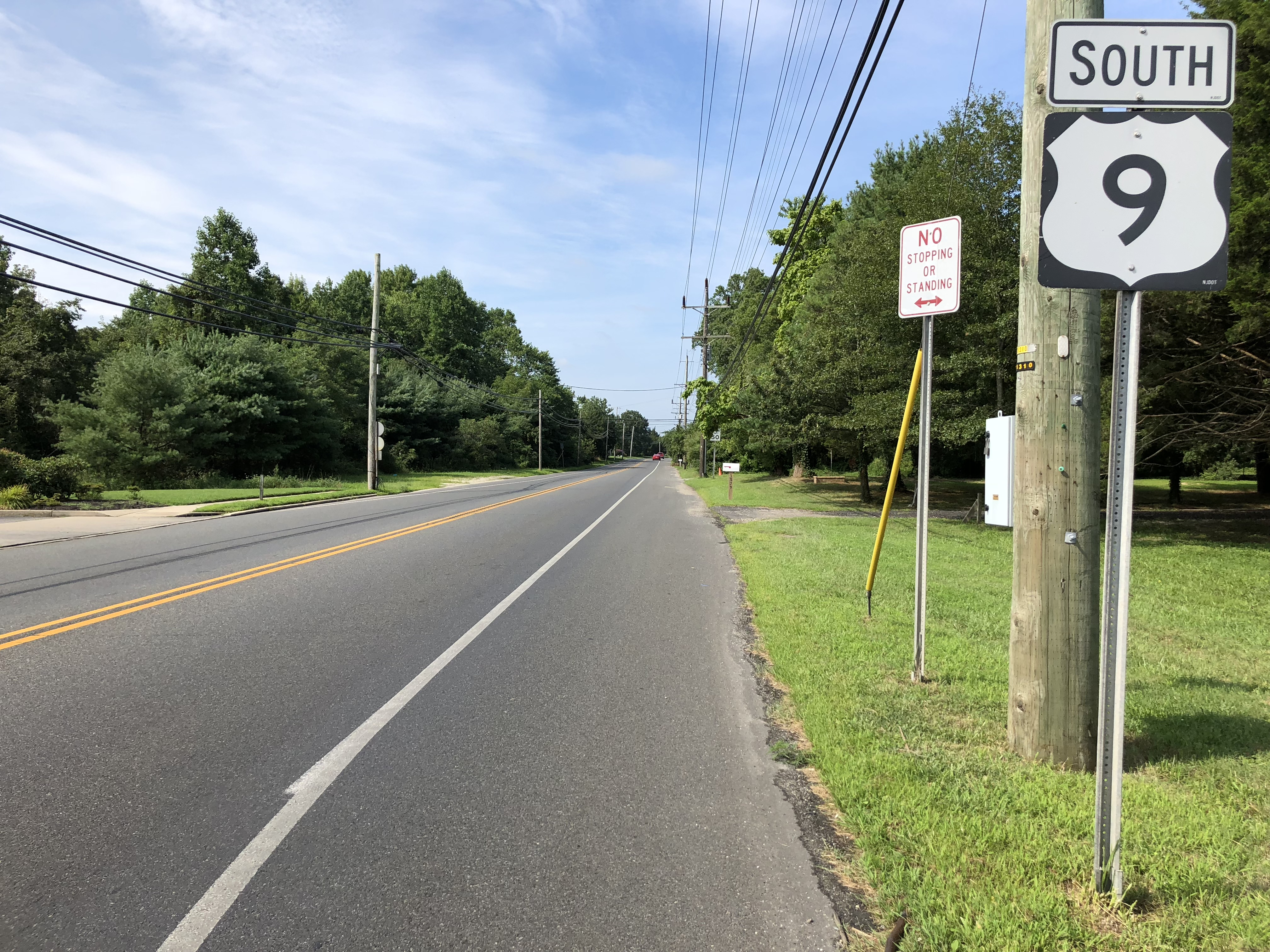 View south along U.S. Route 9 (Shore Road) just south of Cape May County Route 601 (Avalon Boulevard) in Middle Township, Cape May County, New Jersey